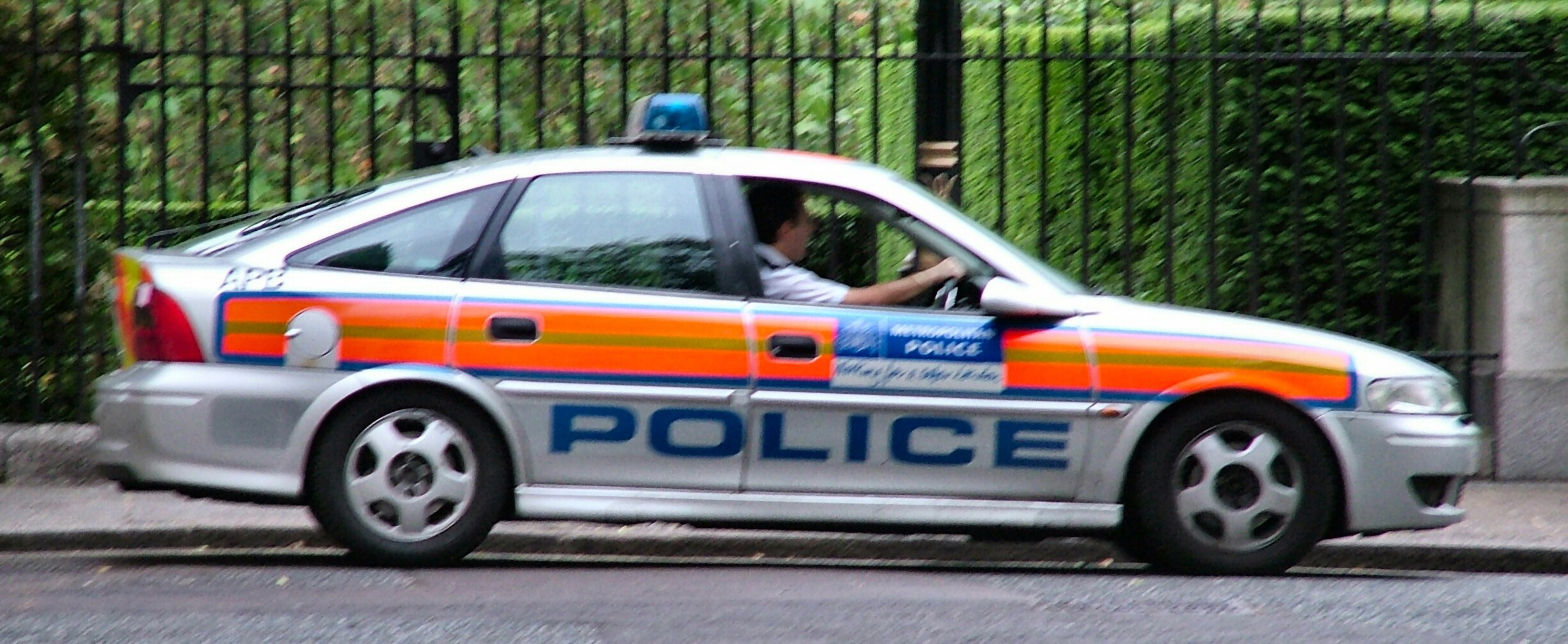 Metropolitan Police Car 1 ISO: 200